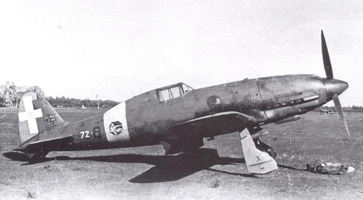 Macchi C.202 of 72ª Squadriglia Caccia Terrestre (72th Fighter Squadron) of Regia Aeronautica, the air force of Kingdom of Italy. Sicily, 1940s, unknown military airport.